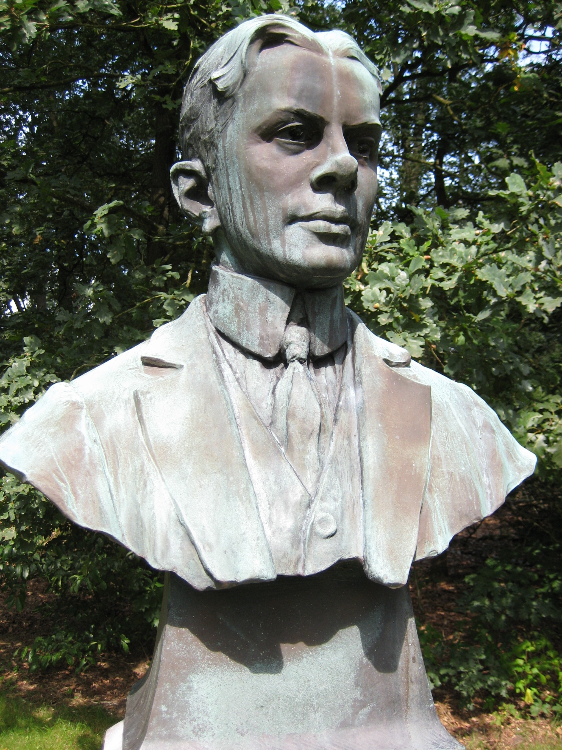 Statue of Clément van Maasdijk in Arnhem, the Netherlands